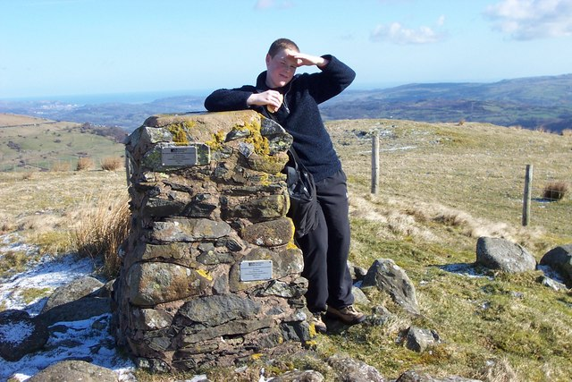 Cefn Cyfarwydd O.S. triangulation pillar. Cefn Cyfarwydd Ordnance Survey trig pillar high above village of Trefriw looking north towards the coast.